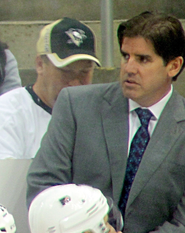 Philadelphia Flyers head coach Peter Laviolette on the bench during a game against the Pittsburgh Penguins, April 7, 2012, at Consol Energy Center in Pittsburgh, PA.